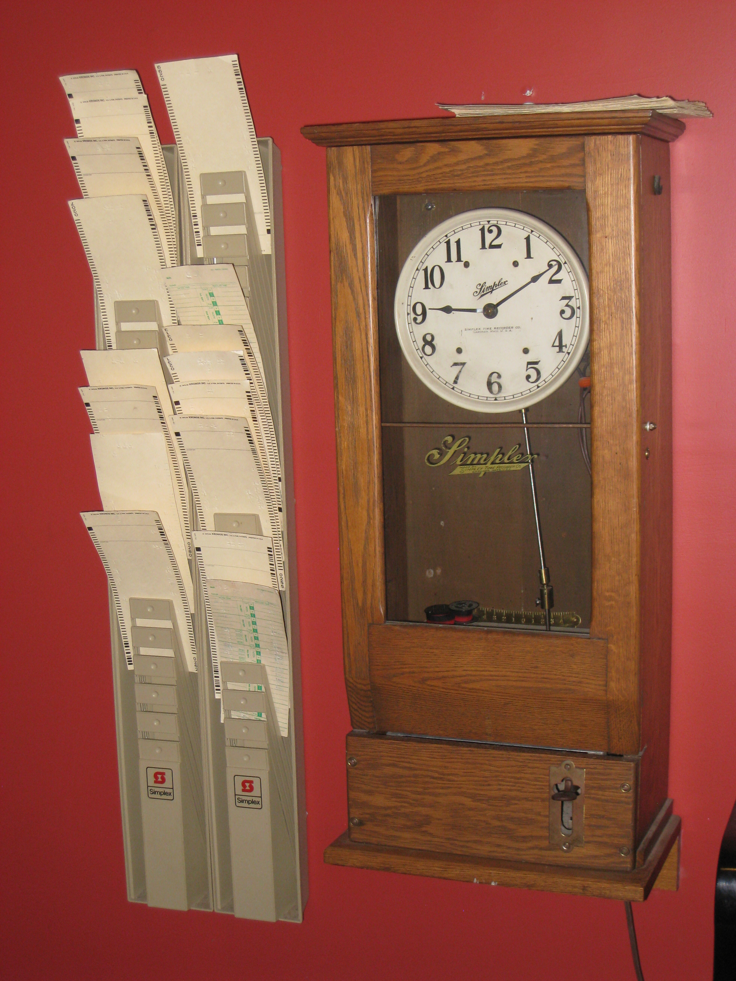 Punch card recording clock, manufactured by Simplex Time Recorder Co., Gardner, Massachusetts, USA. Manufacture date unknown.